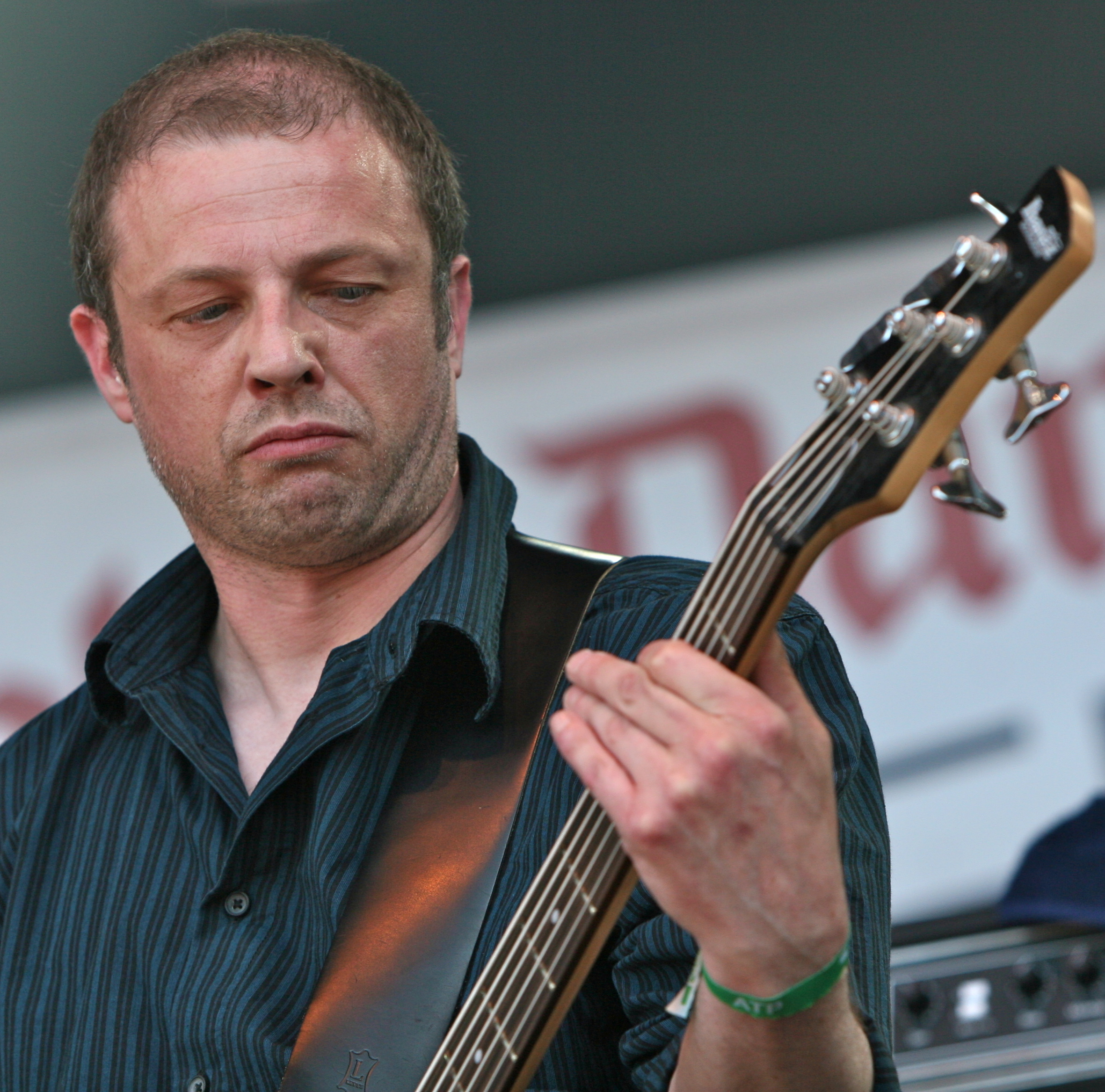 Bass guitarist Diarmuid Dalton performing with Jesu at Primavera Sound festival in 2009.